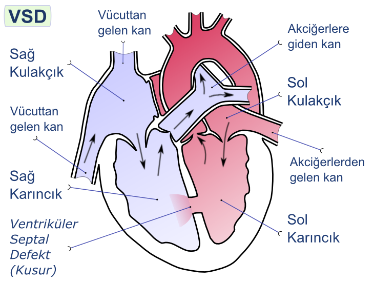 Ventricular septal defect (VSD) is a defect in the ventricular septum, the wall dividing the left and right ventricles of the heart.